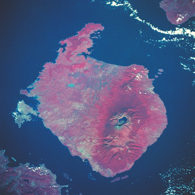 Color infrared view of Rinjani Volcano, Lombok Island, Indonesia